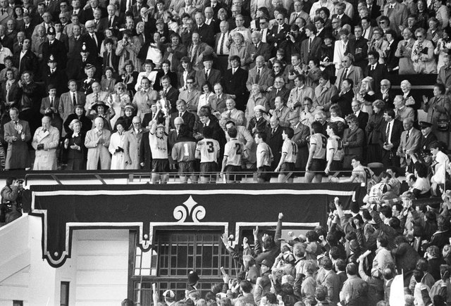 Royal Box at Wembley Stadium (League Cup Final 1986 between Oxford United and QPR), London, England